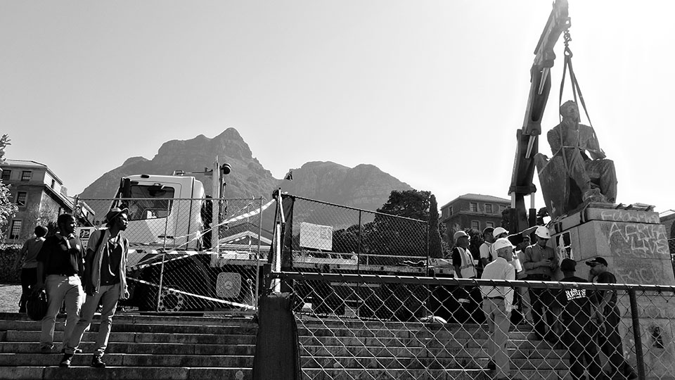 Removal of the statue of Cecil Rhodes (sculptor: Marion Walgate) from the campus of the University of Cape Town, 9 April 2015